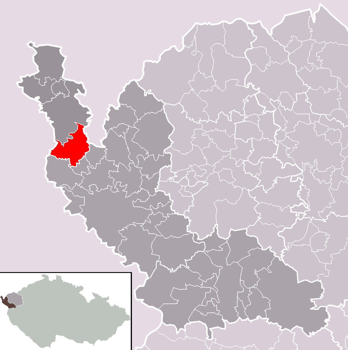 Location of Hazlov municipality within Cheb District and administrative area of Aš as a Municipality with Extended Competence.